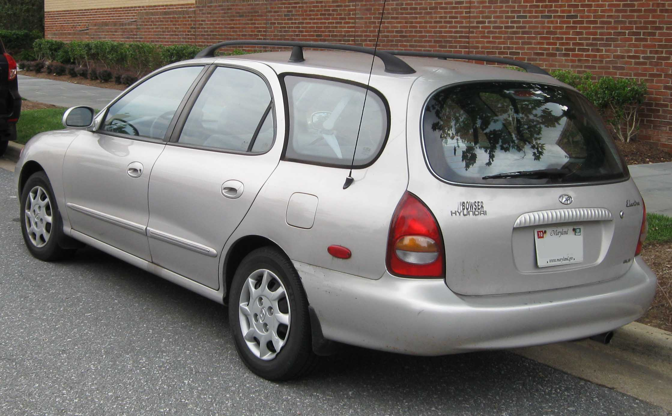 1998-2000 Hyundai Elantra photographed in College Park, Maryland, USA.